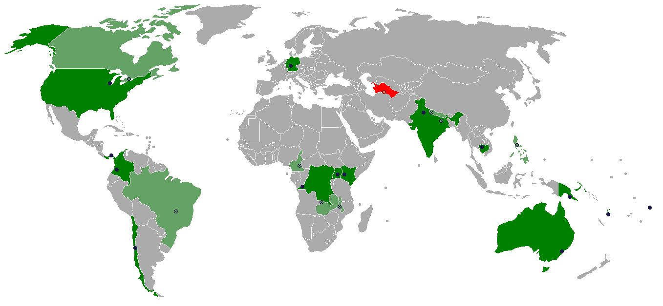 Map of locations of Bahá'í Houses of Worship in the world. Countries with an existing House of Worship Countries with a House of Worship planned or under construction Countries with a previously existing House of Worship (now destroyed) Where known, exact locations are marked with a black dot: •